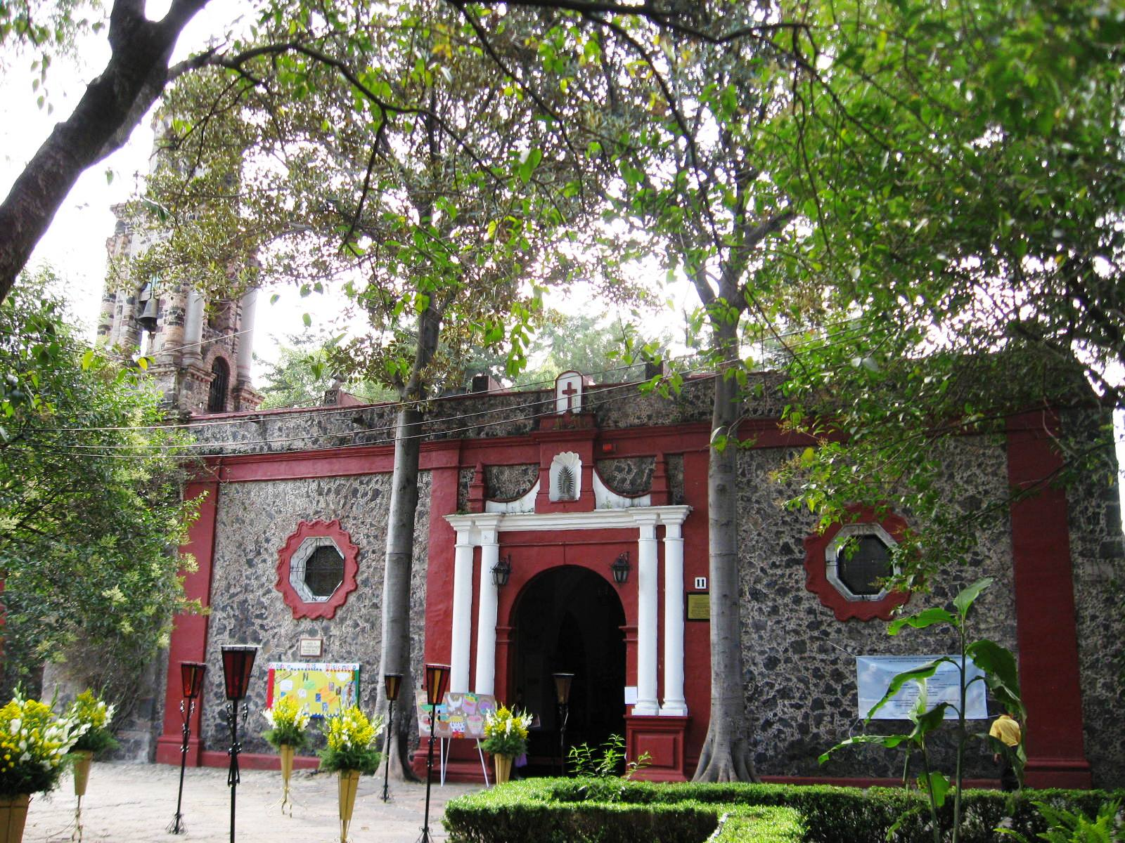 Church of Colonia Chimalistac in Delegacion Alvaro Obregon in Mexico City